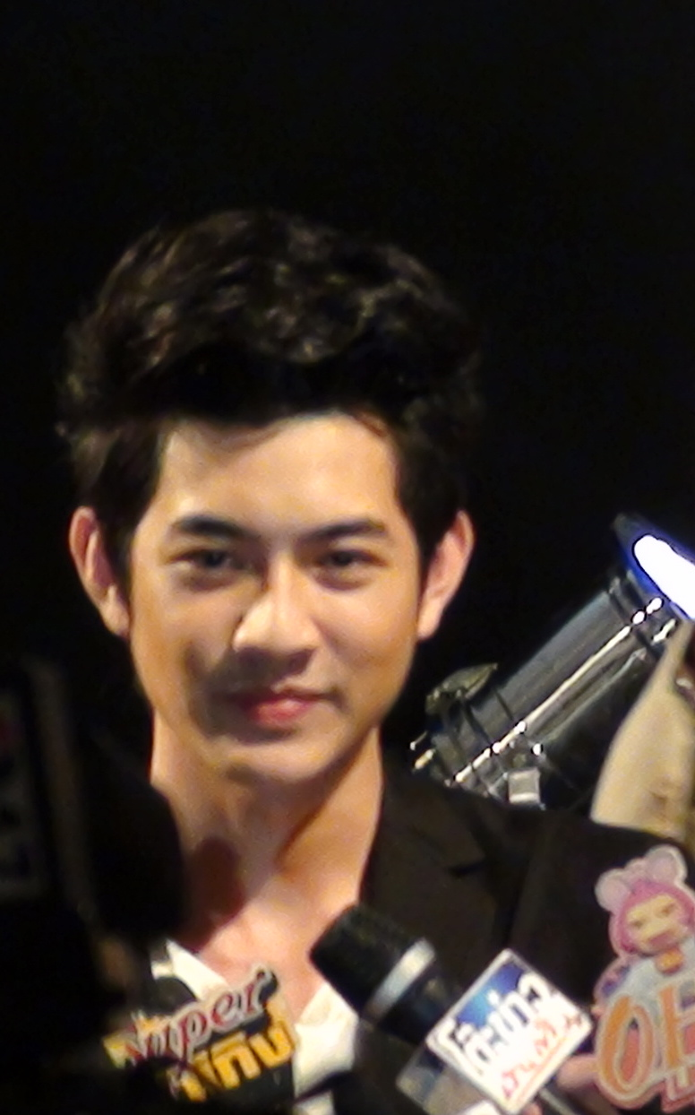 apinya rungpitakmana